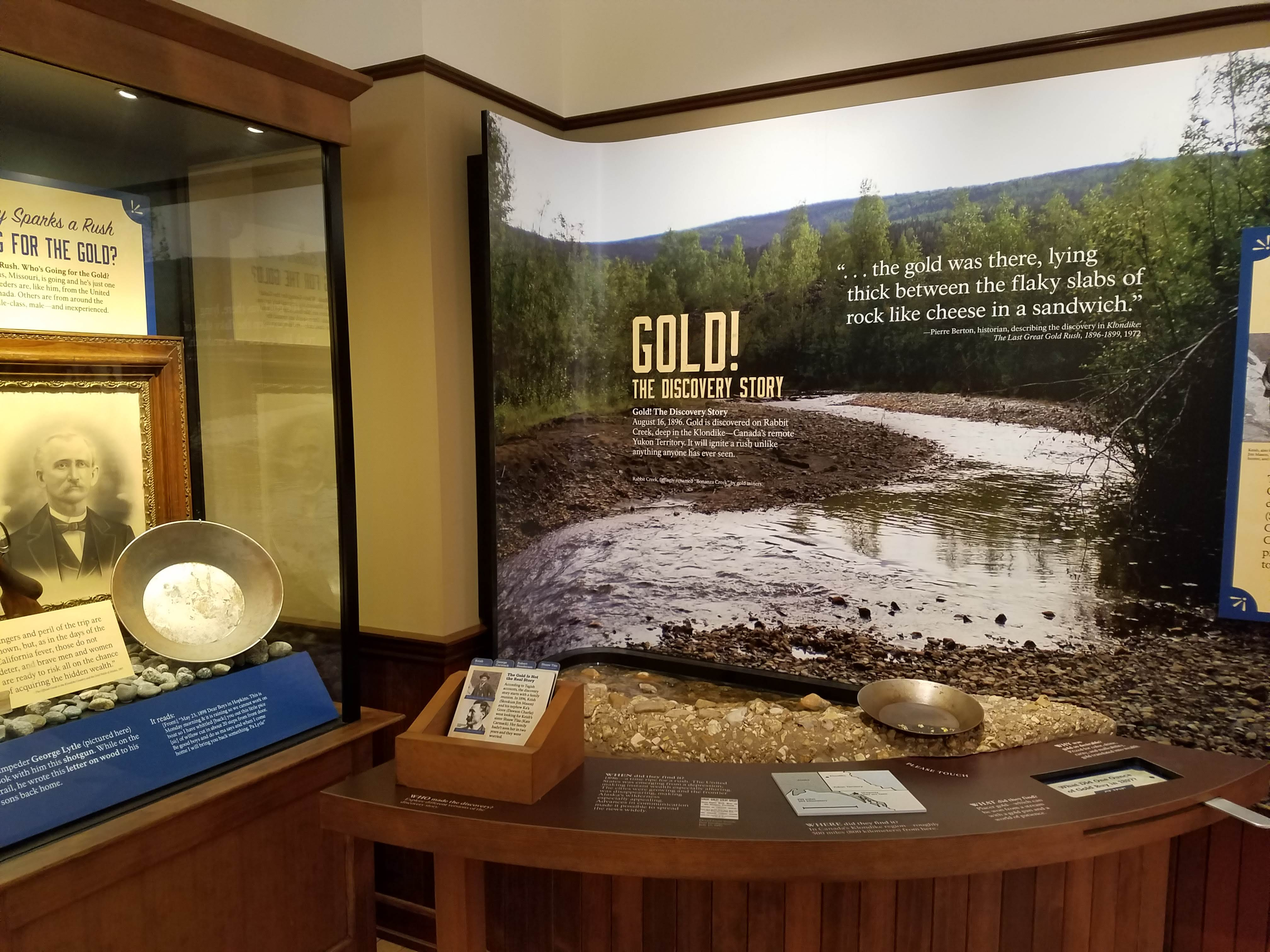 2019 Klondike Gold Rush National Historic Park exhibit in Skagway, Alaska